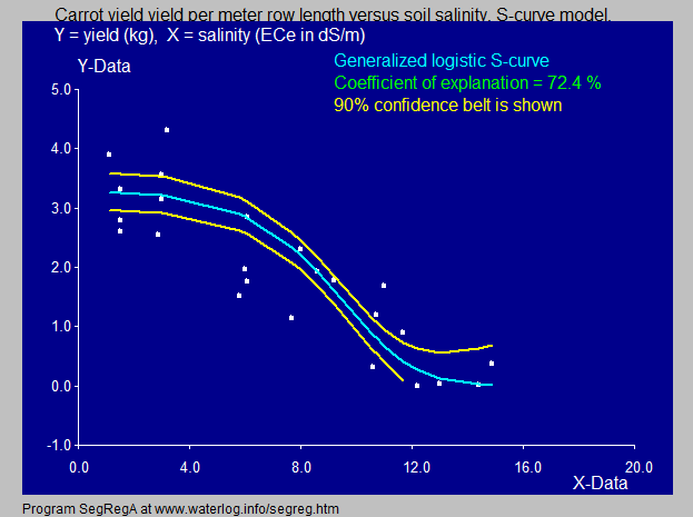 Relation between yield of carrot and soil salinity represented by an S-curve